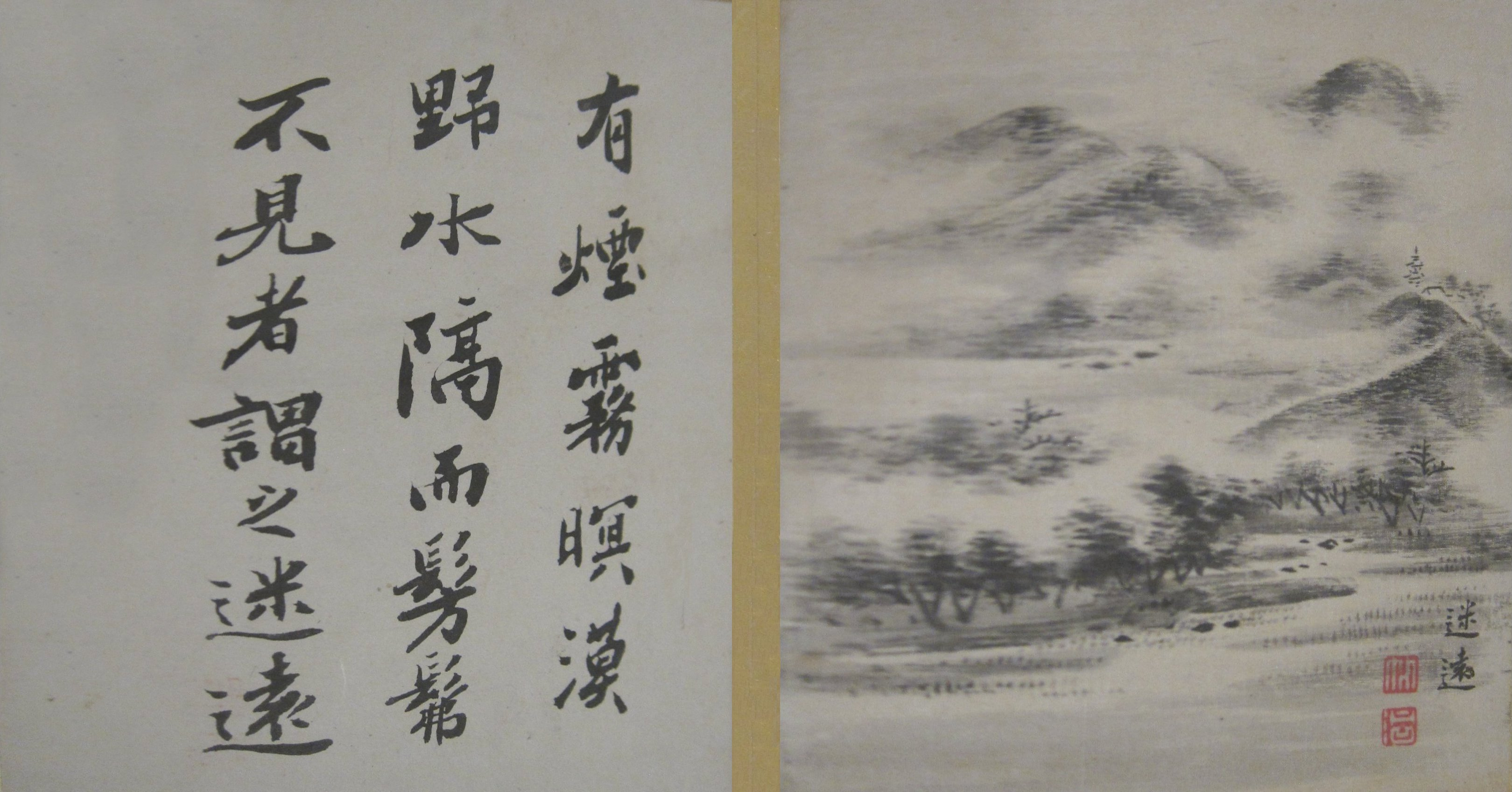 Landscape and calligraphy by Nakabayashi Chikutō from an album of six landscapes, ink on silk, 1820, Honolulu Museum of Art